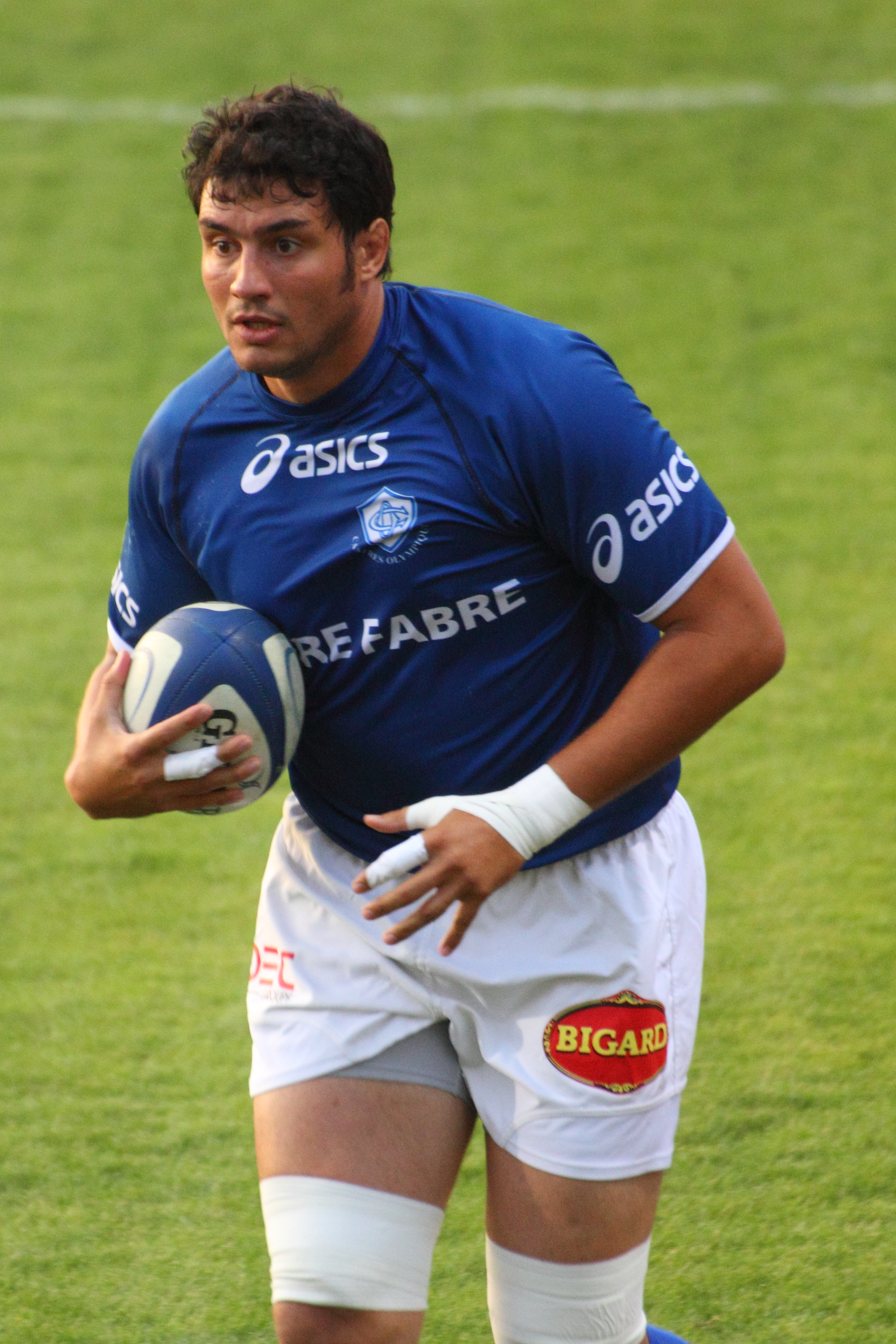 Top 14 — 17 August 2012, Stade Ernest-Wallon. Match between: Stade toulousain — Castres olympique